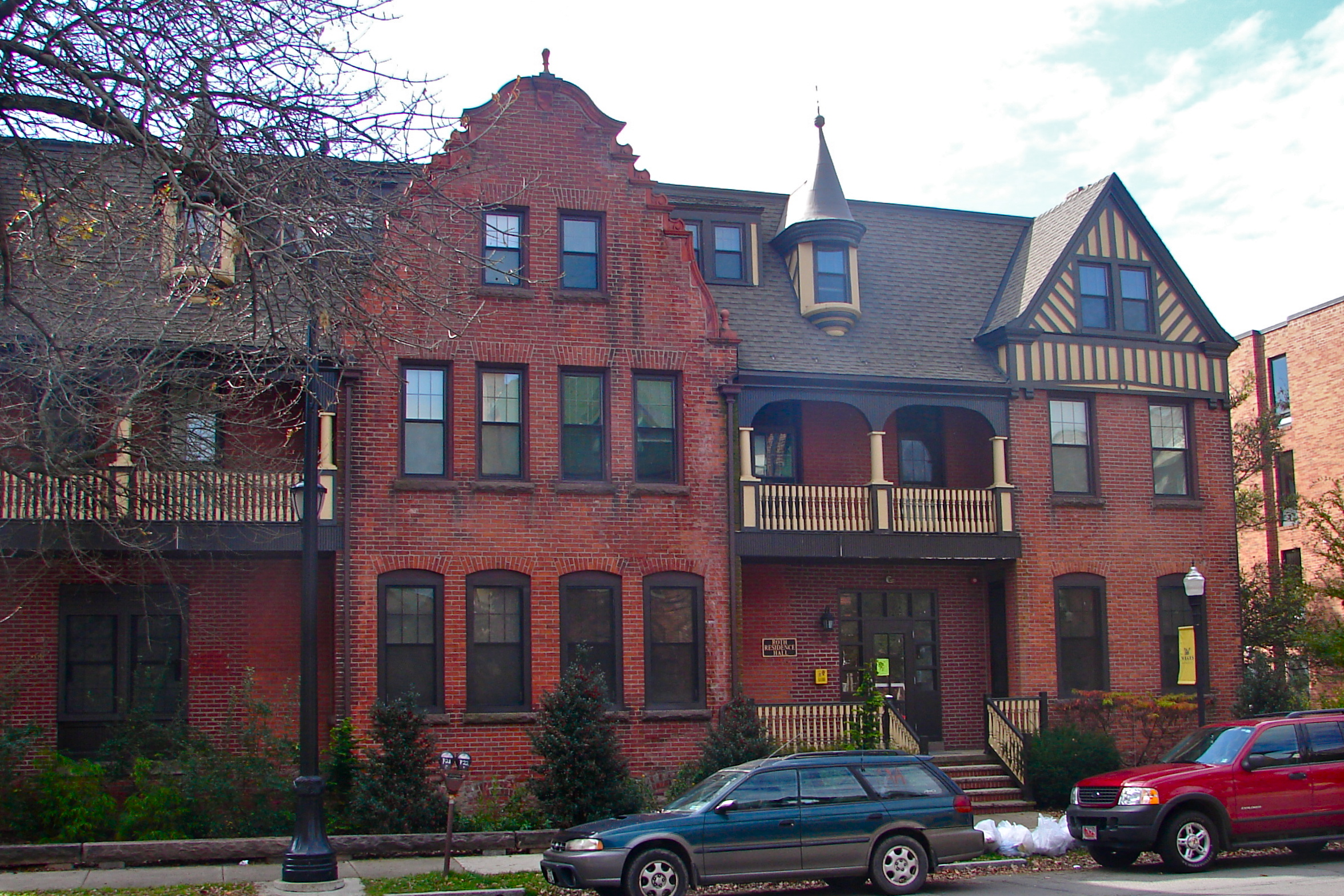 Roth Residence Hall in Wilkes-Barre, Pennsylvania. Part of the River Street Historic District listed on the NRHP September 10, 1985. The Historic District includes Franklin, River, West River, West Jackson, West Union, West Market, West Northampton, West South and West Ross Streets and Barnum Place